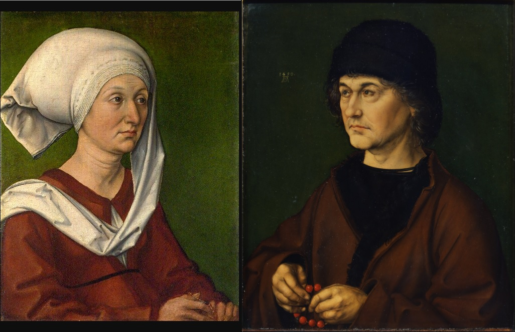 Dürer parents